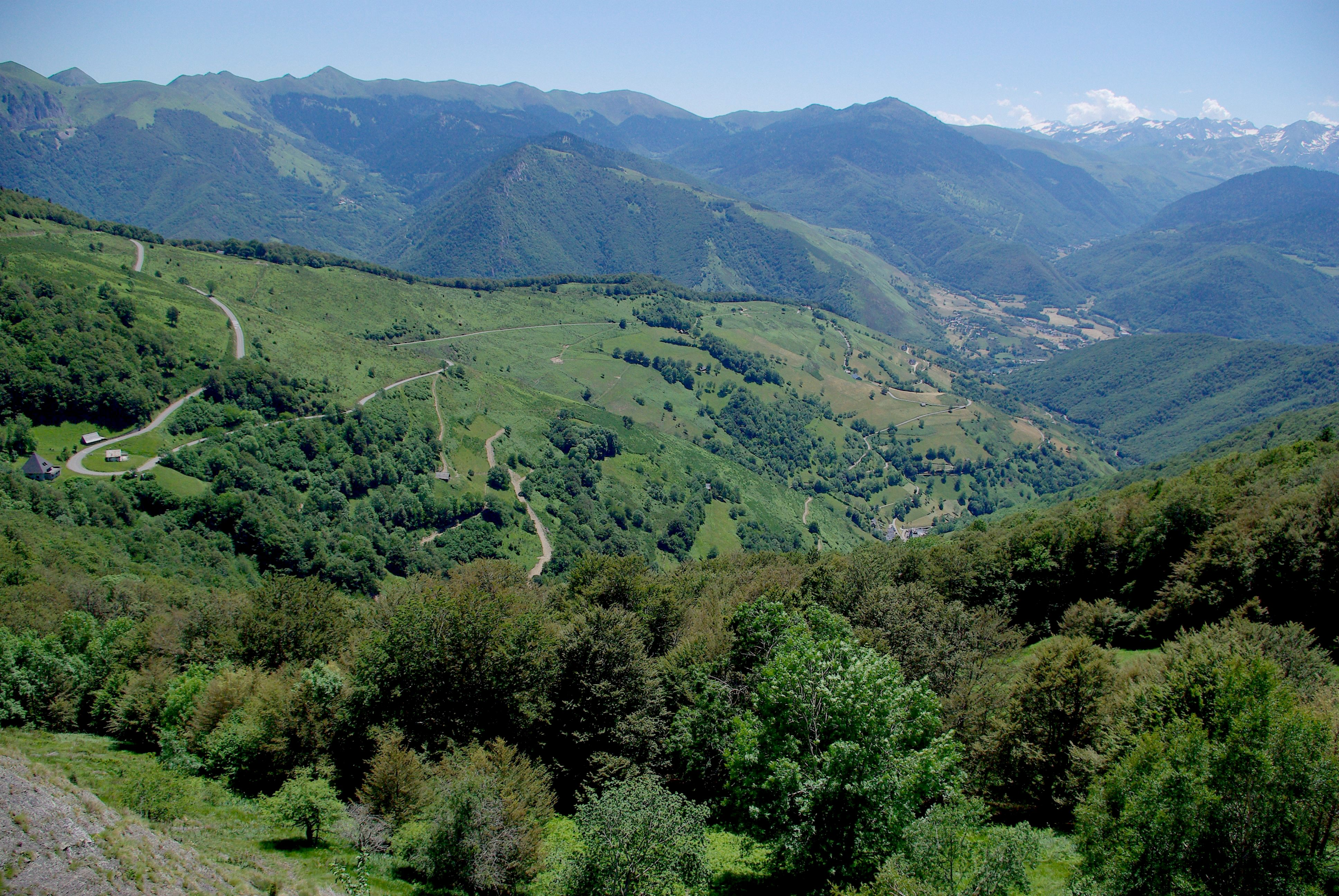 View from the col d'Aspin showing the road to Arreau. Hautes-Pyrénées, France.